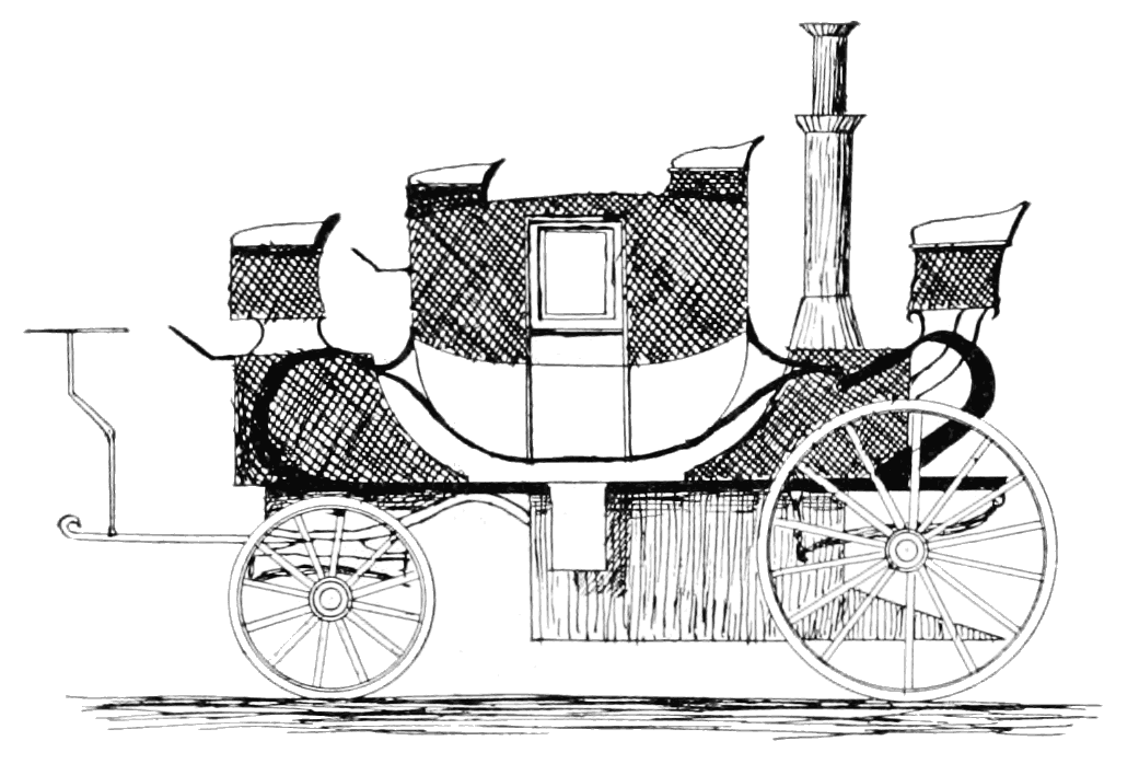 John Scott Russell's stream carriage of 1845